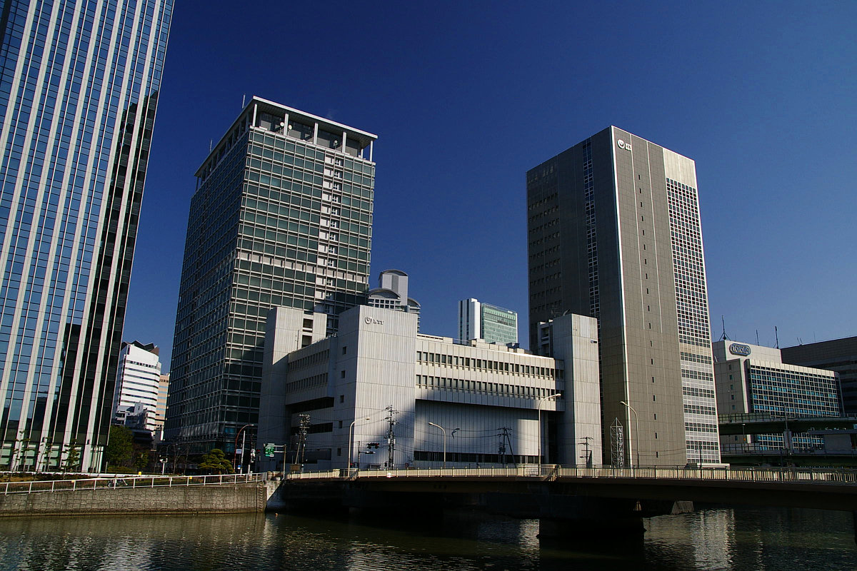 NTT Telepark Dojima, Osaka city, Japan